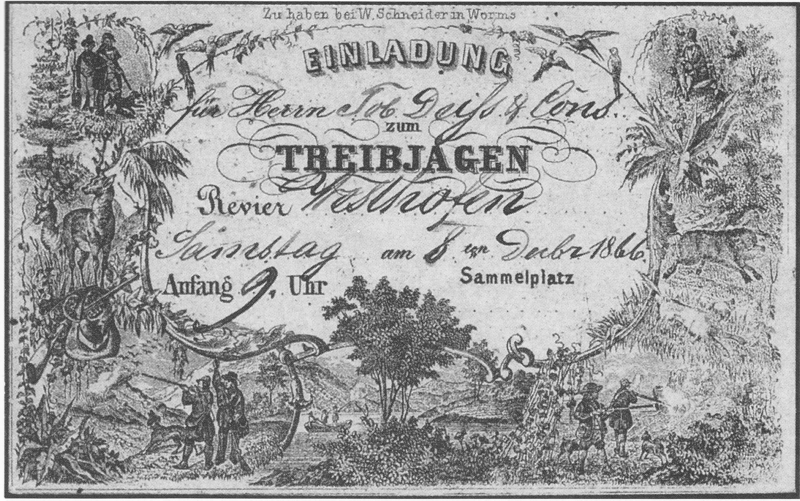 Oldest known illustrated Old German forrunner of the picture postcard with postmark of 5th Dezember 1866.